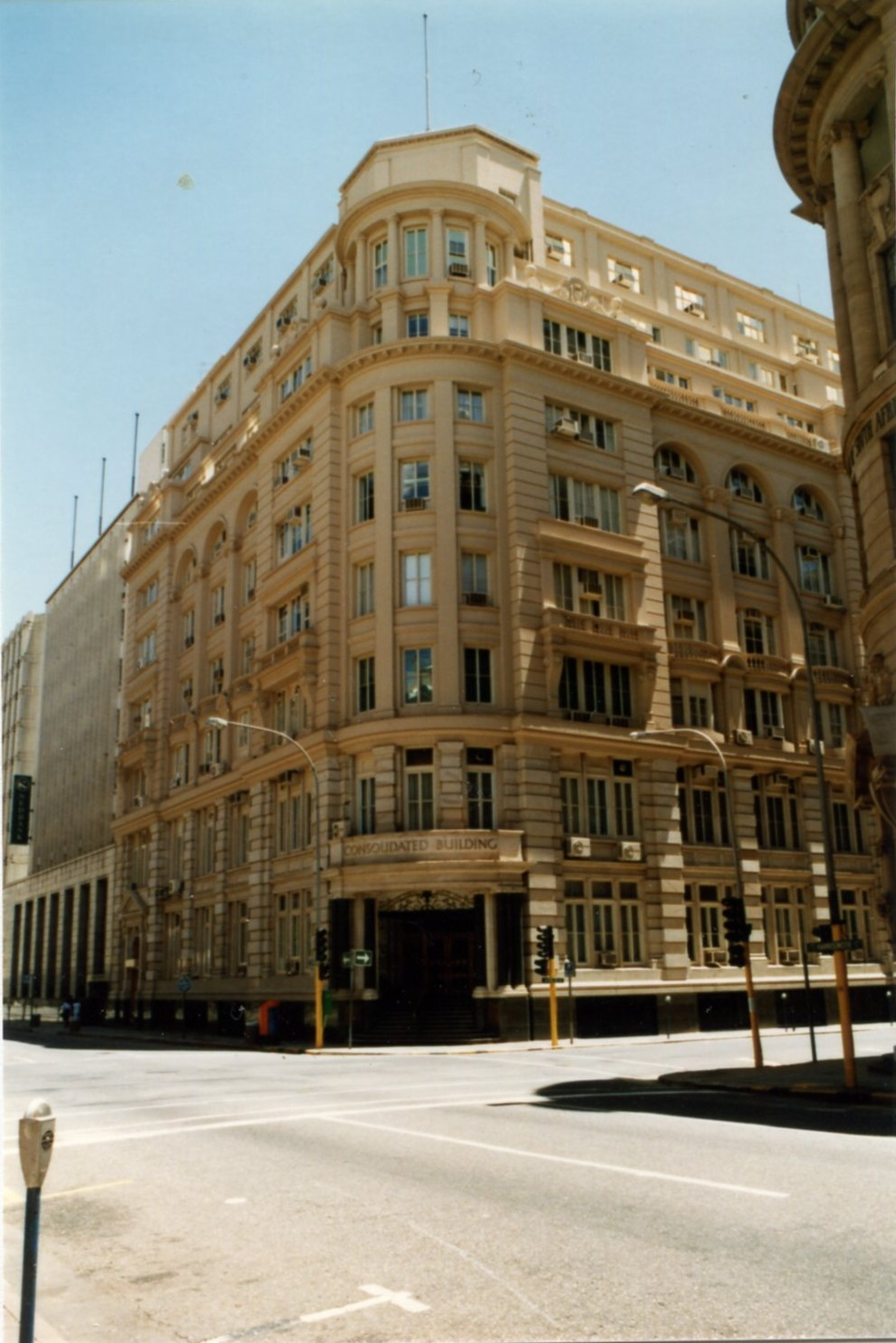 these files belongs to the Johannesburg Heritage Foundation and are given to Wikimedia and its other projects to be used for free